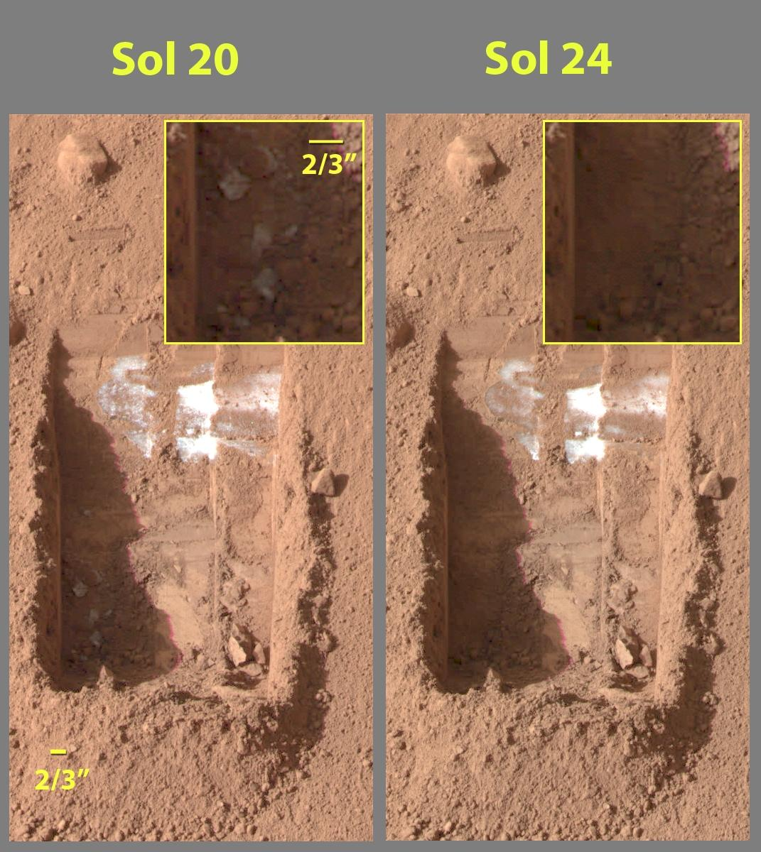 These color images were acquired by NASA's Phoenix Mars Lander's Surface Stereo Imager on the 21st and 25th days of the mission, or Sols 20 and 24 (June 15 and 19, 2008). These images show sublimation of ice in the trench informally called "Dodo-Goldilocks" over the course of four days. In the lower left corner of the left image, a group of lumps is visible. In the right image, the lumps have disappeared, similar to the process of evaporation.